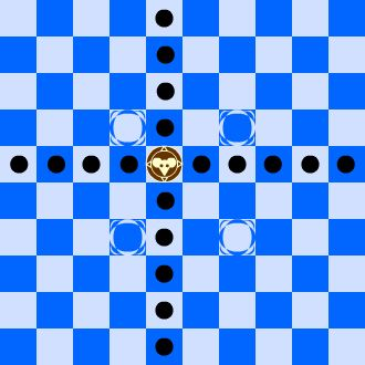 Diagram of the moves of a mouse in Barca board game